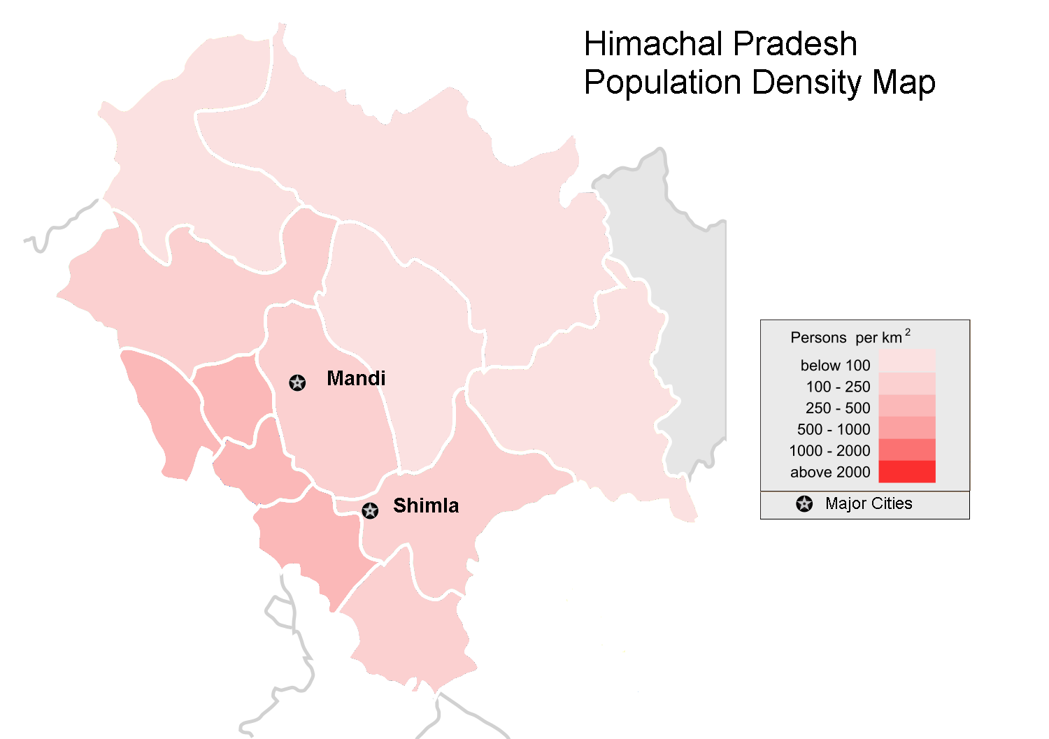 Map showing the population density of each district in India. Based on 2001 census.